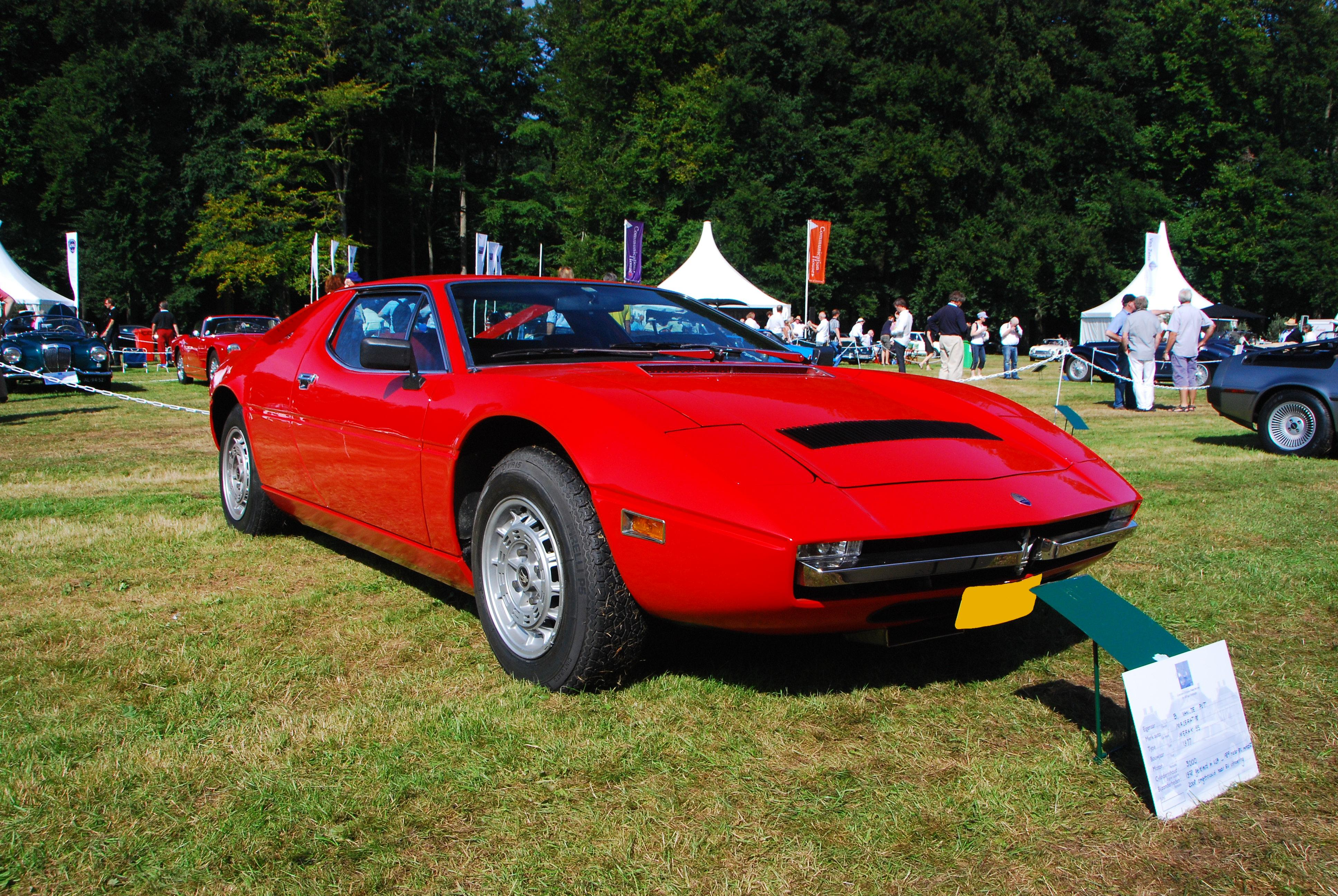 Maserati Merak seen during Concours d'Elegance 2008, Apeldoorn (NL)